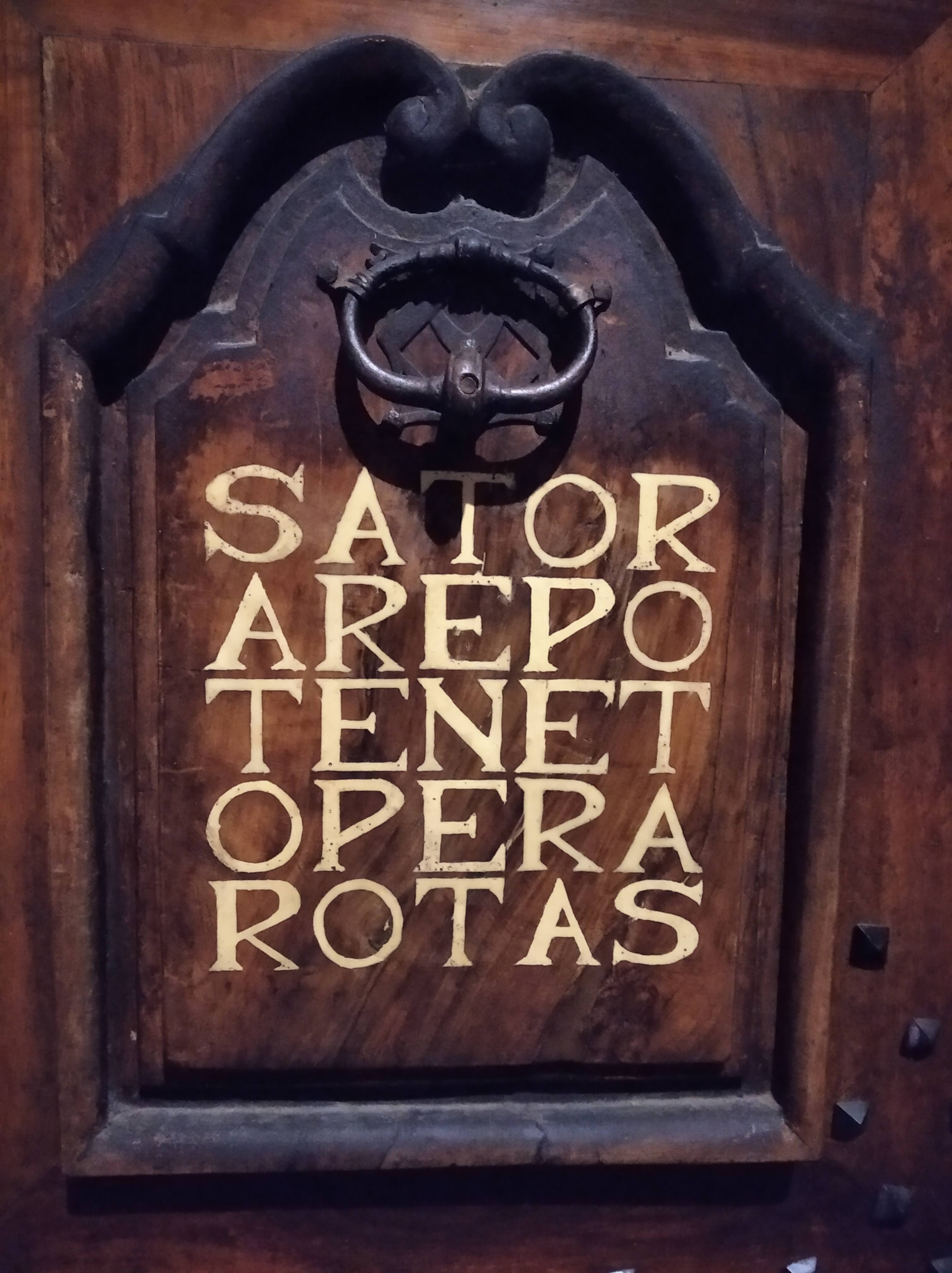 Registration located on door located at 20 rue Jean-Jacques Rousseau in Grenoble (France). latin palindrome "SATOR RAPEO TENET OPERA ROTAS", meaning "The Plowman with his plow or in his field, directs the work".